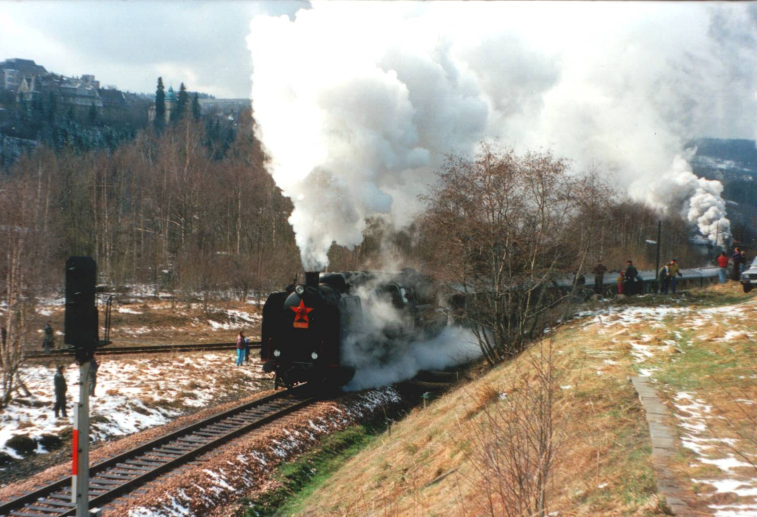 Re-opening of railway border crossing Potůčky-Johanngeorgenstadt, April 17, 1992, Railway line Karlovy Vary–Johanngeorgenstadt